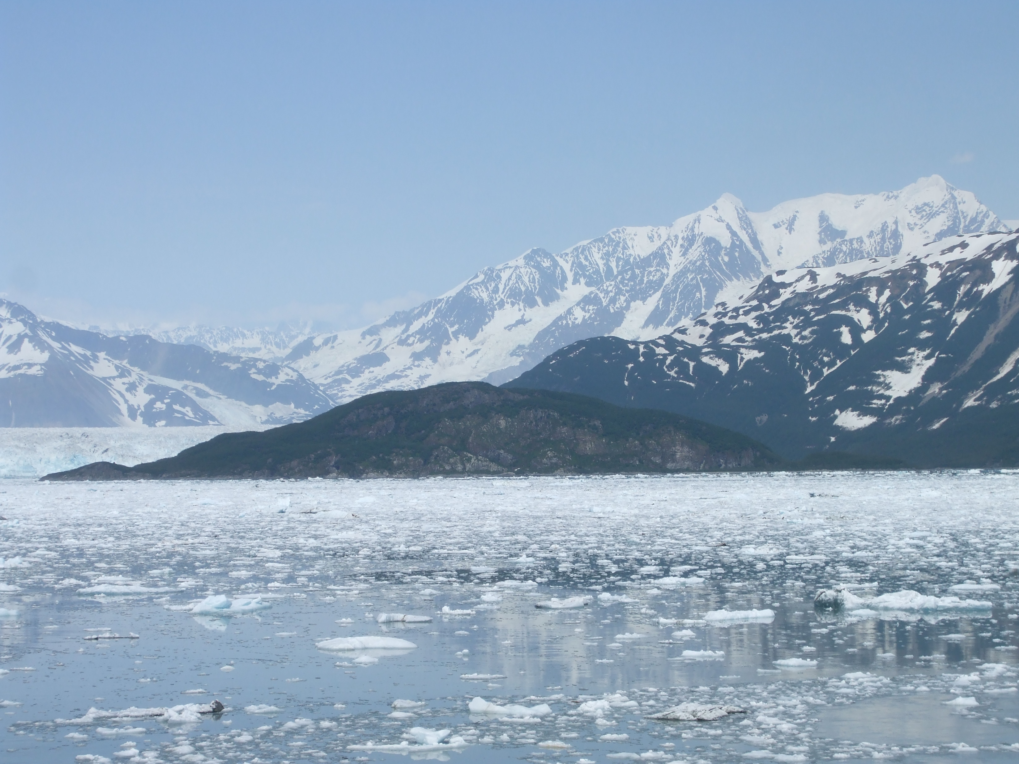 Usable with attribution and link to